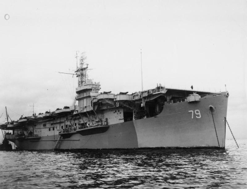 British Bogue/Ameer class escort aircraft carrier HMS PUNCHER at anchor